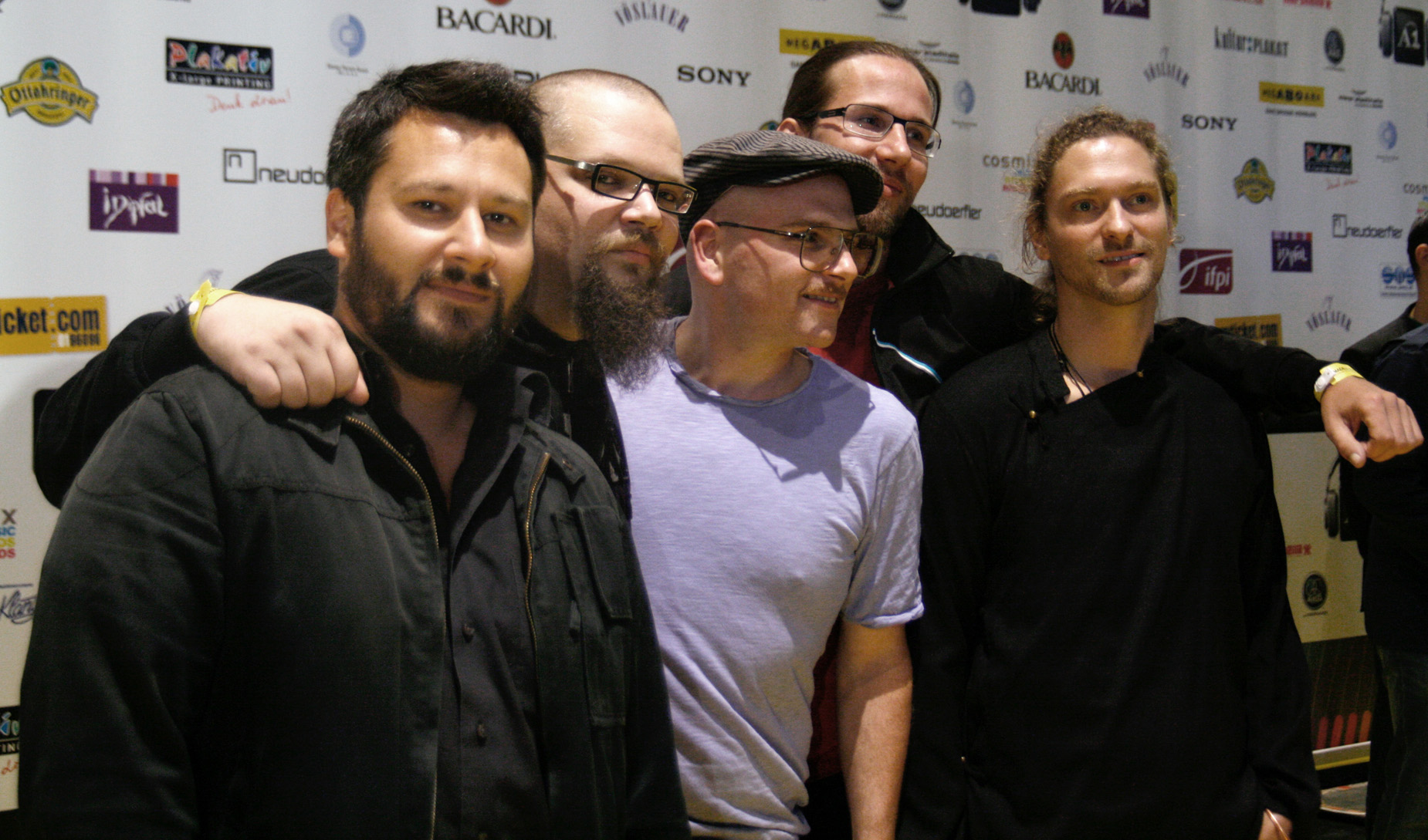 Bauchklang at the Amadeus Austrian Music Award 2010 (Wiener Stadthalle, Vienna, Austria)